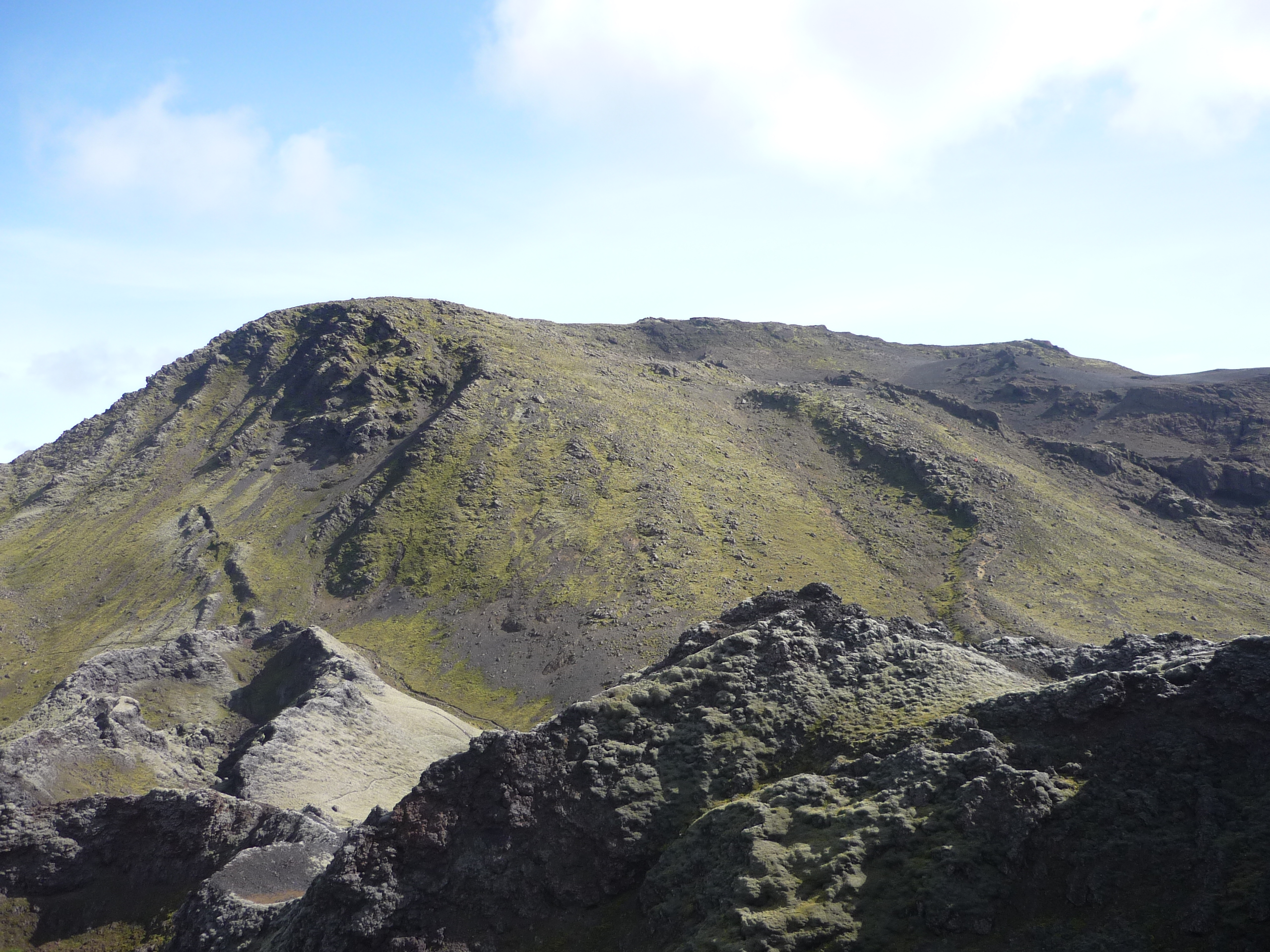 Laki seen from Lakagígar, Iceland